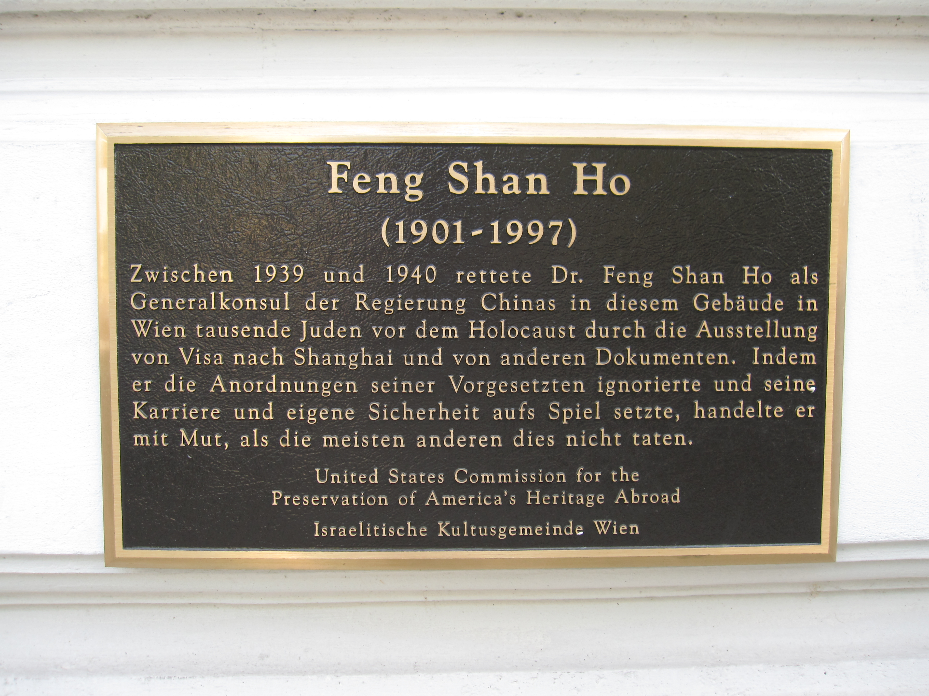 Palais Larisch von Moennich in Vienna